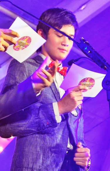 Ruru Madrid at the Candy Style Awards, May 2013